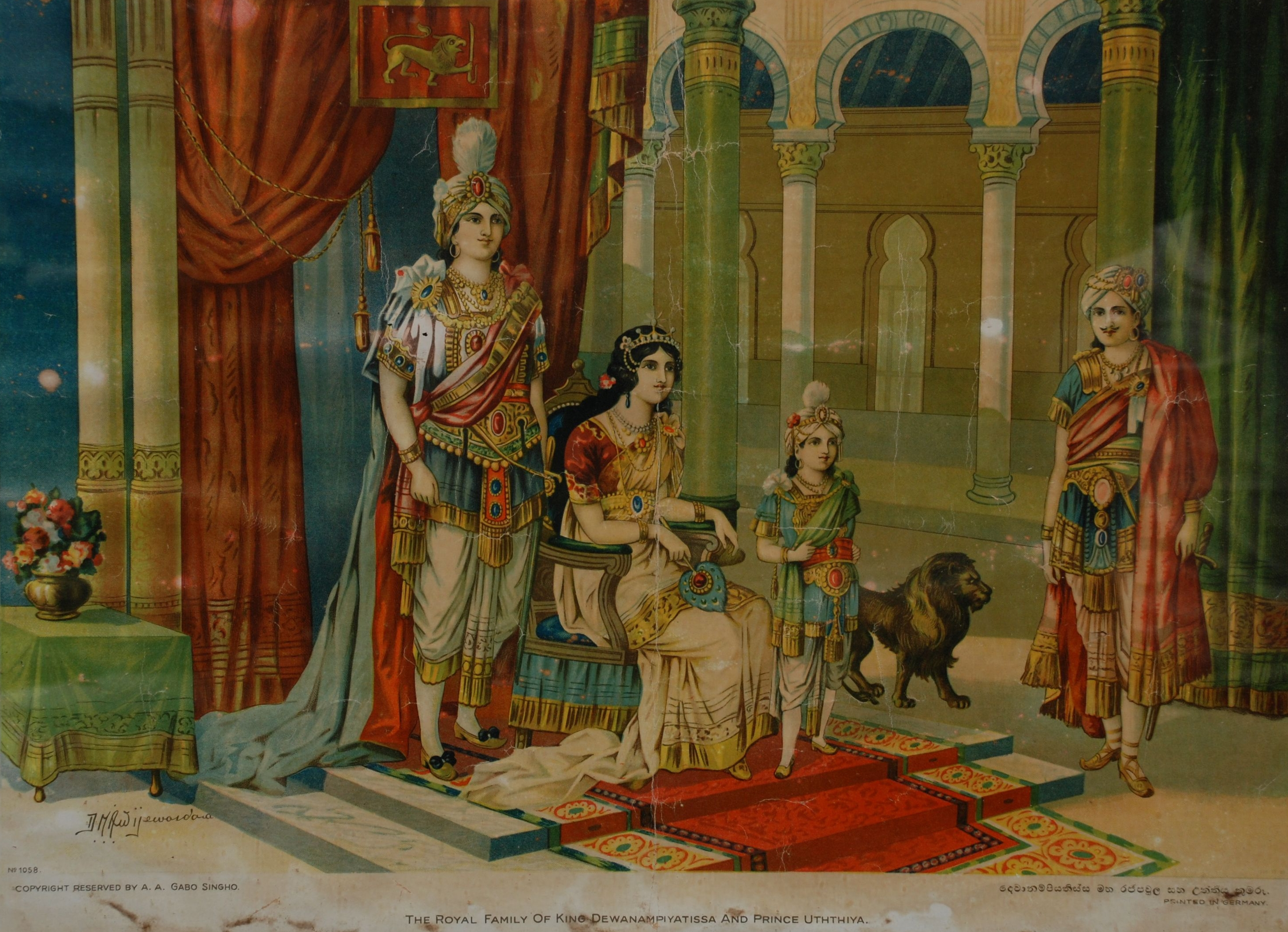 A painting of Sinhalese Royal Family of King Devanampiya Tissa and Prince Uththiya සිංහල: දෙවානම්පියතිස්ස මහ රජපවුල සහ උත්තිය කුමරු